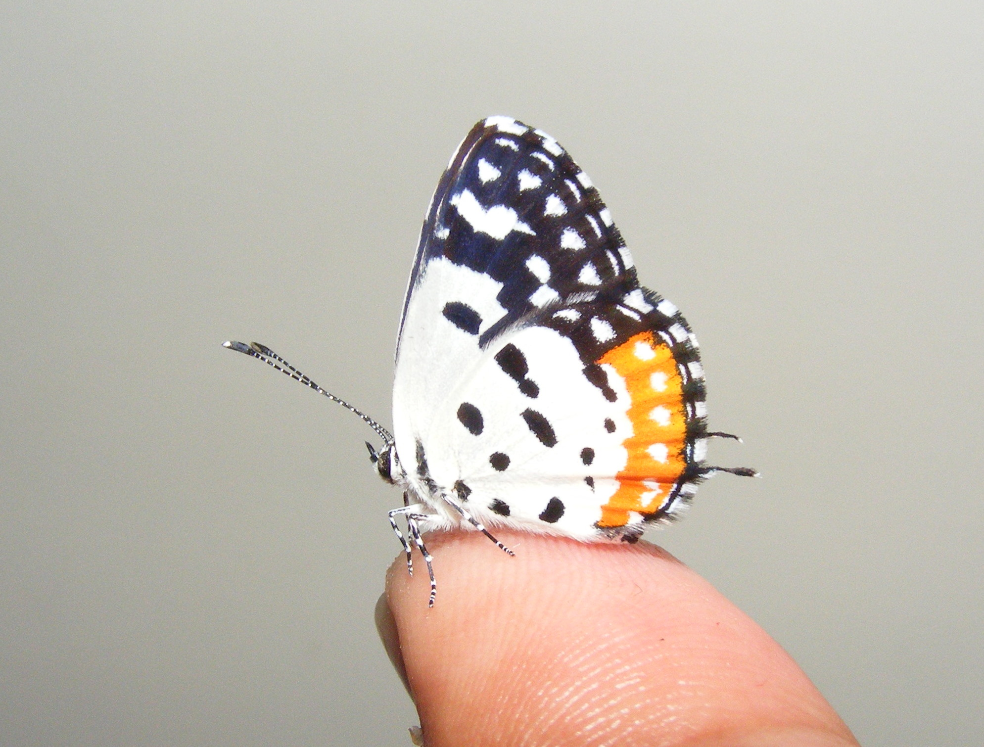 Red Pierrot (Talicada nyseus). At Dombivli, Dist. Thane, Maharashtra.